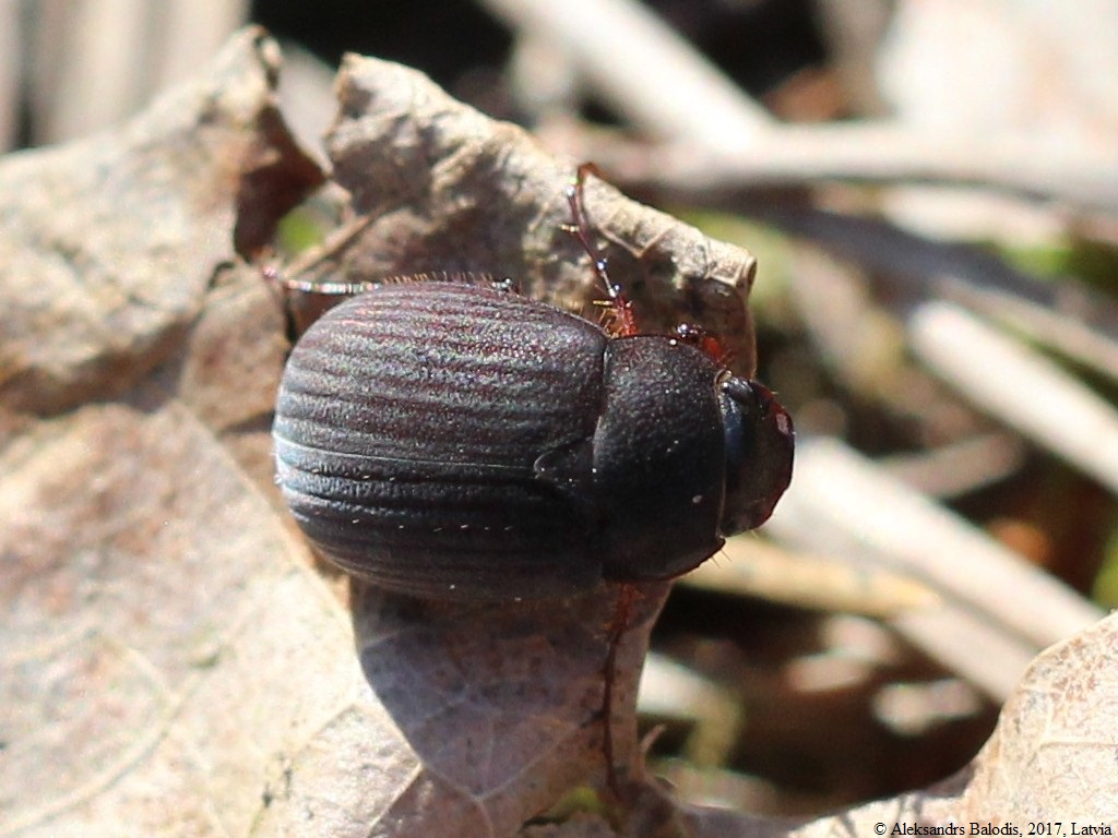 Maladera holosericea